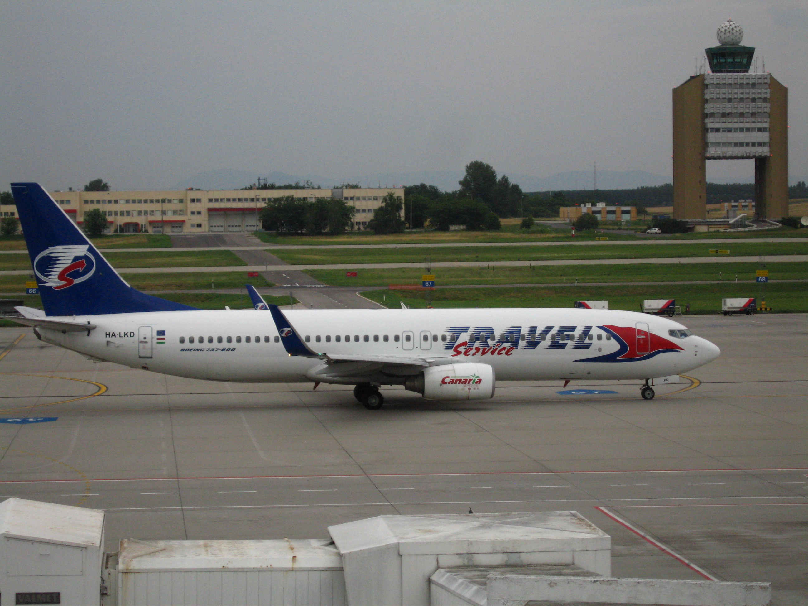 Travel Service Boeing 737-800 HA-LKD